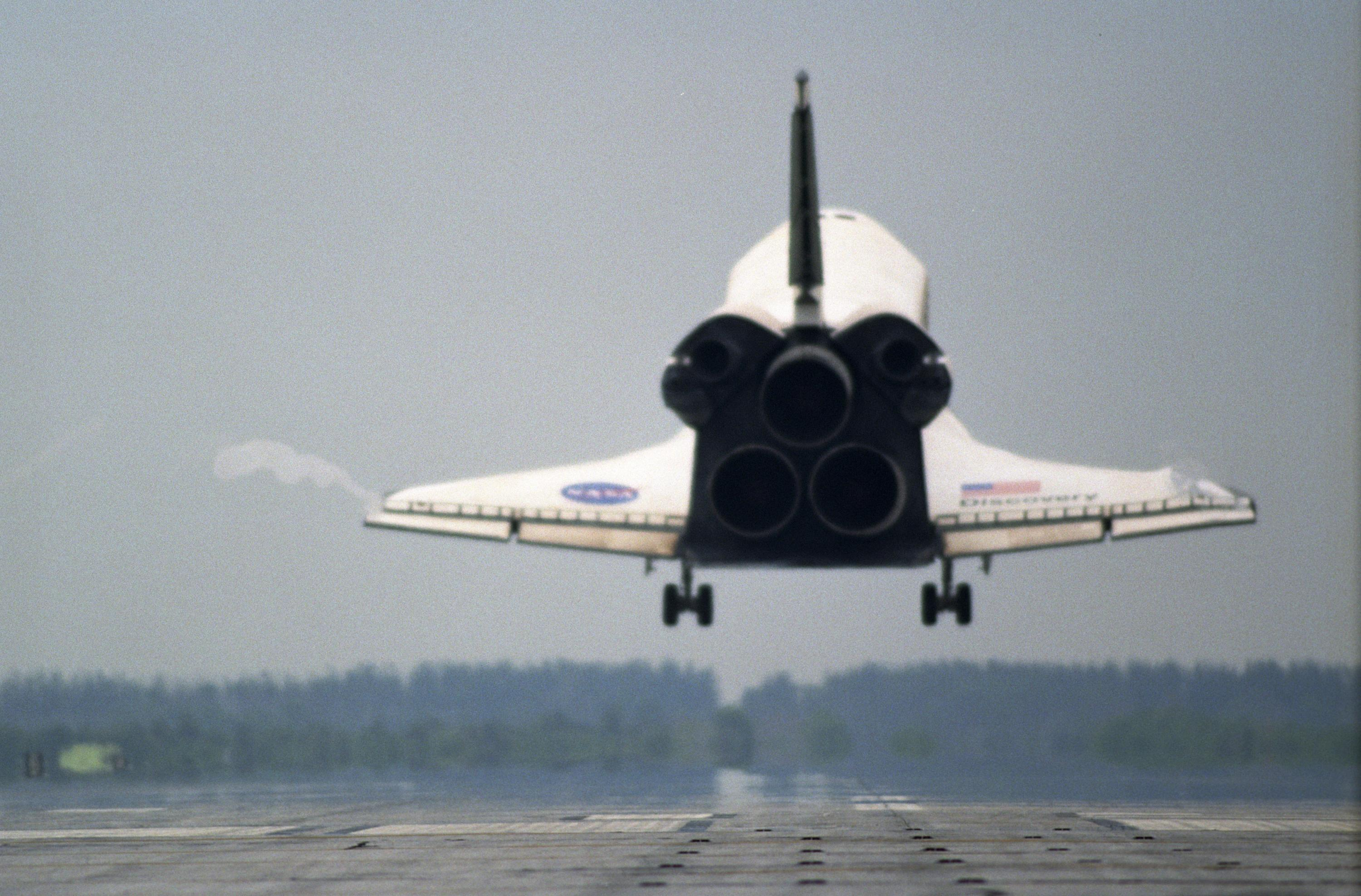 Space Shuttle Discovery landing, marking the end of STS-121, the 115th mission of the Space Shuttle.